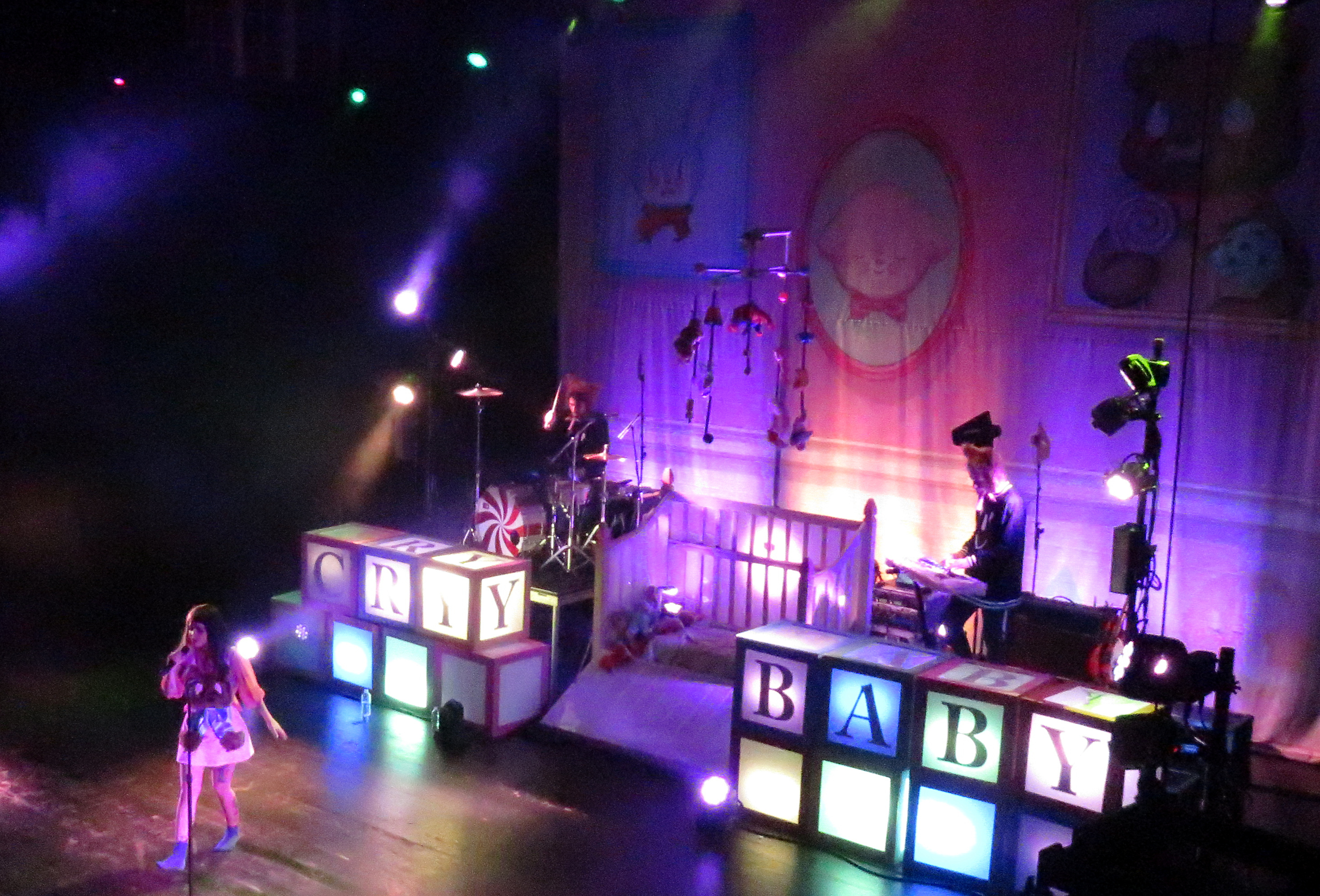 Melanie Martinez on House of Blues, localized in Orlando, Florida, in April 4, 2016.